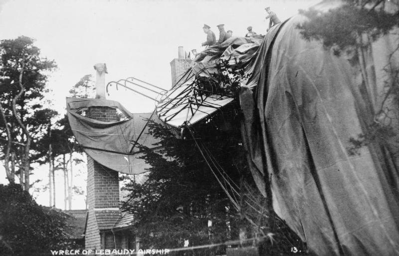 Aviation in Britain Before the First World War The wreck of the Lebaudy airship in Farnborough. This photograph mainly shows the remains if the Gondola including the engines and propellers. Crowds can be seen gathering behind the fence in the background.